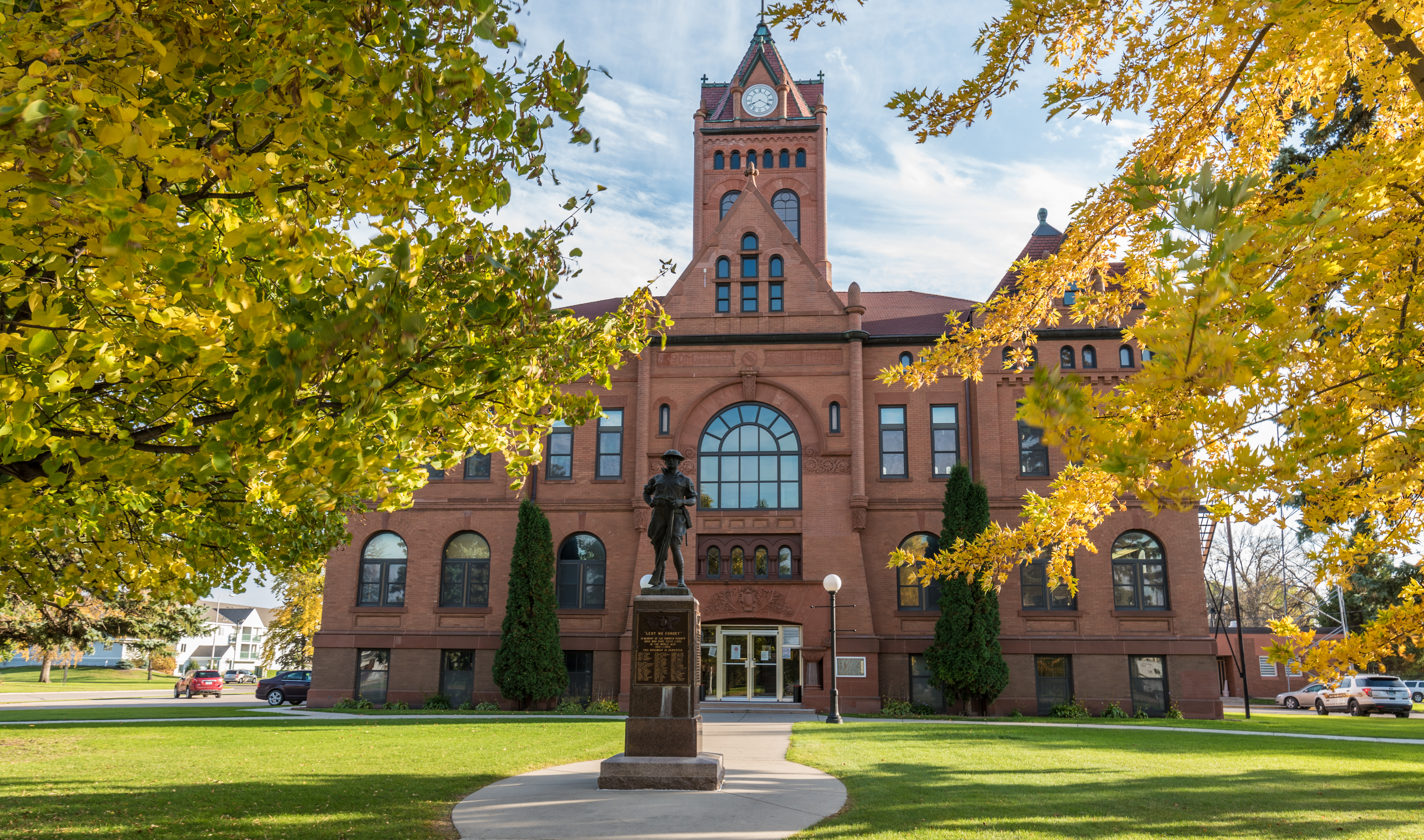 The Norman County Courthouse in Ada, Minnesota.